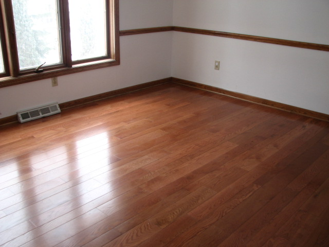 A room with wood flooring made of oak.